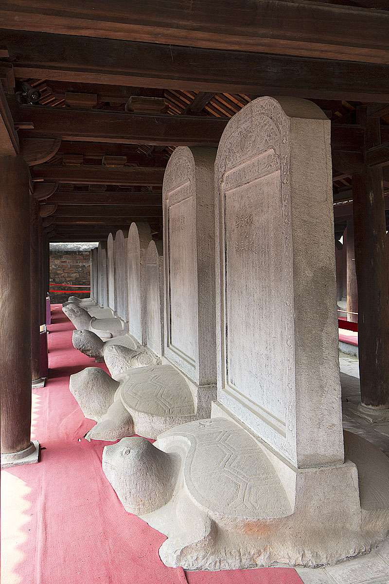 Doctor’s Steles of Le, Temple of Literature in Hanoi